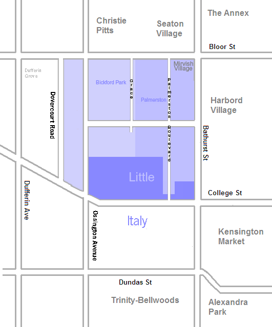 Derived from Little Italy map by SimonP